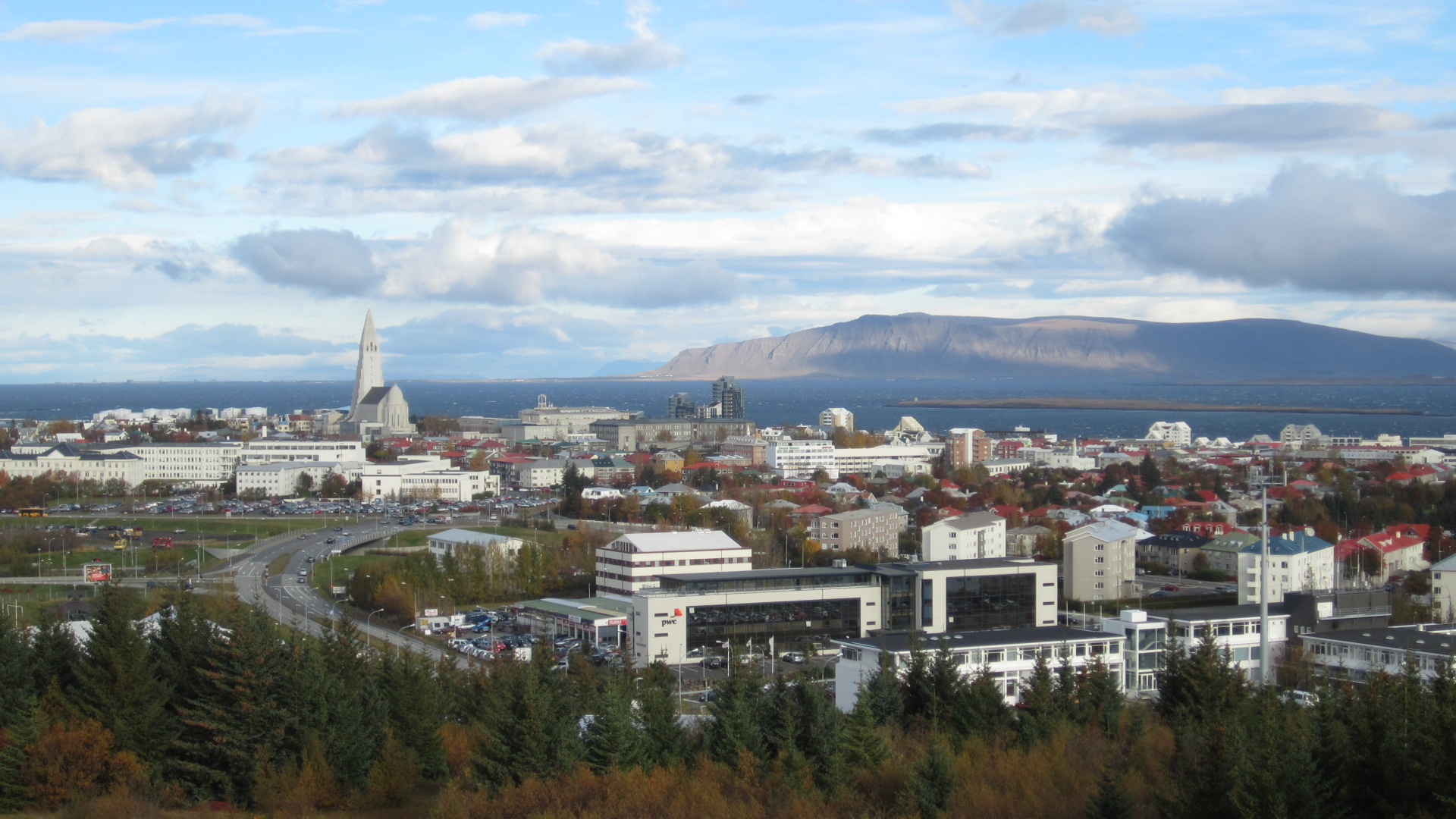 View from Perlan over the city of Reykjavík to Hallgrímskirkja.